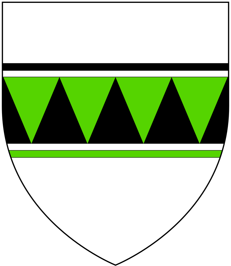 Arms of Hody (alias Huddy, Huddie, etc) of Stowell, Somerset: Argent, a fess per fess indented vert and sable between two cotises counterchanged of the fess (Source: Burke's General Armory, 1884, p.515[1] Also p.496, Hody)